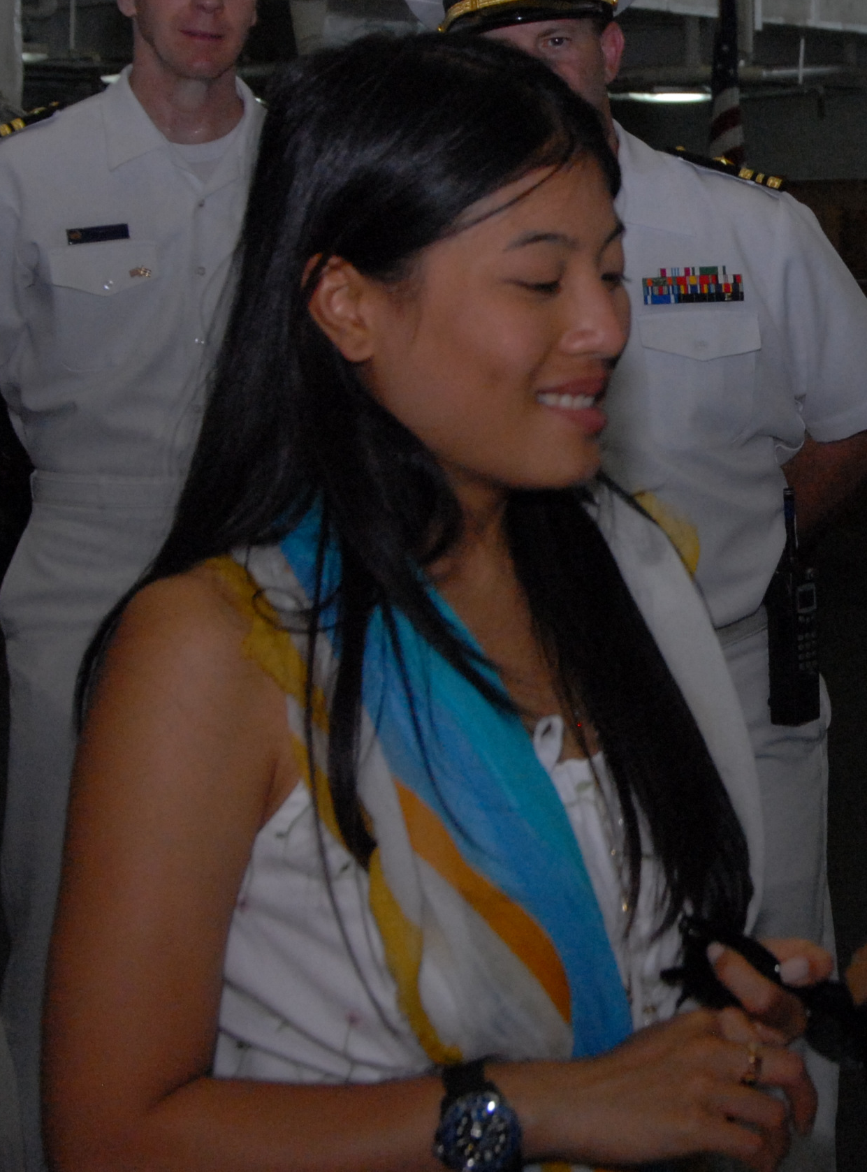 LAEM CHABANG, Thailand (Aug. 8, 2011) Capt. Kenneth Reynard, executive officer of the aircraft carrier USS George Washington (CVN 73), presents a commemorative plaque to Thailand's Princess Sirivannavari Nariratana after her tour of the ship. George Washington is on a port visit to Thailand to strengthen ties with the partner nation. (U.S. Navy photo by Seaman Tatiana Avery/Released)